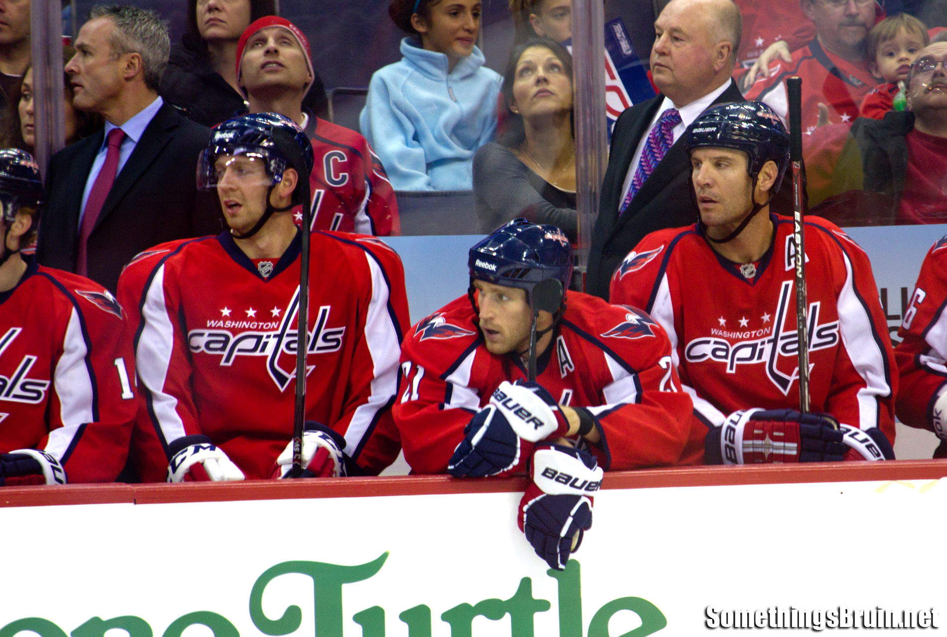 Washington Capitals bench, players shown (left to right) Eric Fehr, Brooks Laich, & Mike Knuble. Head Coach Bruce Boudreau is behind Knuble on the right hand side Taken on November 5, 2010 Canon EOS REBEL T2i Bruins vs. Caps (Set: 27) This photo also appears in sarah_connors' photostream (3,556) Tags: eric fehr NHL Washington Capitals hockey icehockey